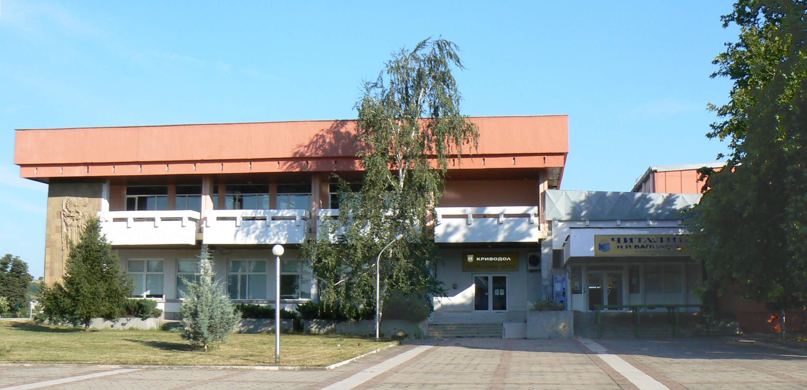 The building of Krivodol Municipality (to the left) Library/community centre "Nikola Y. Vaptsarov" (to the right) in town Krivodol, Bulgaria